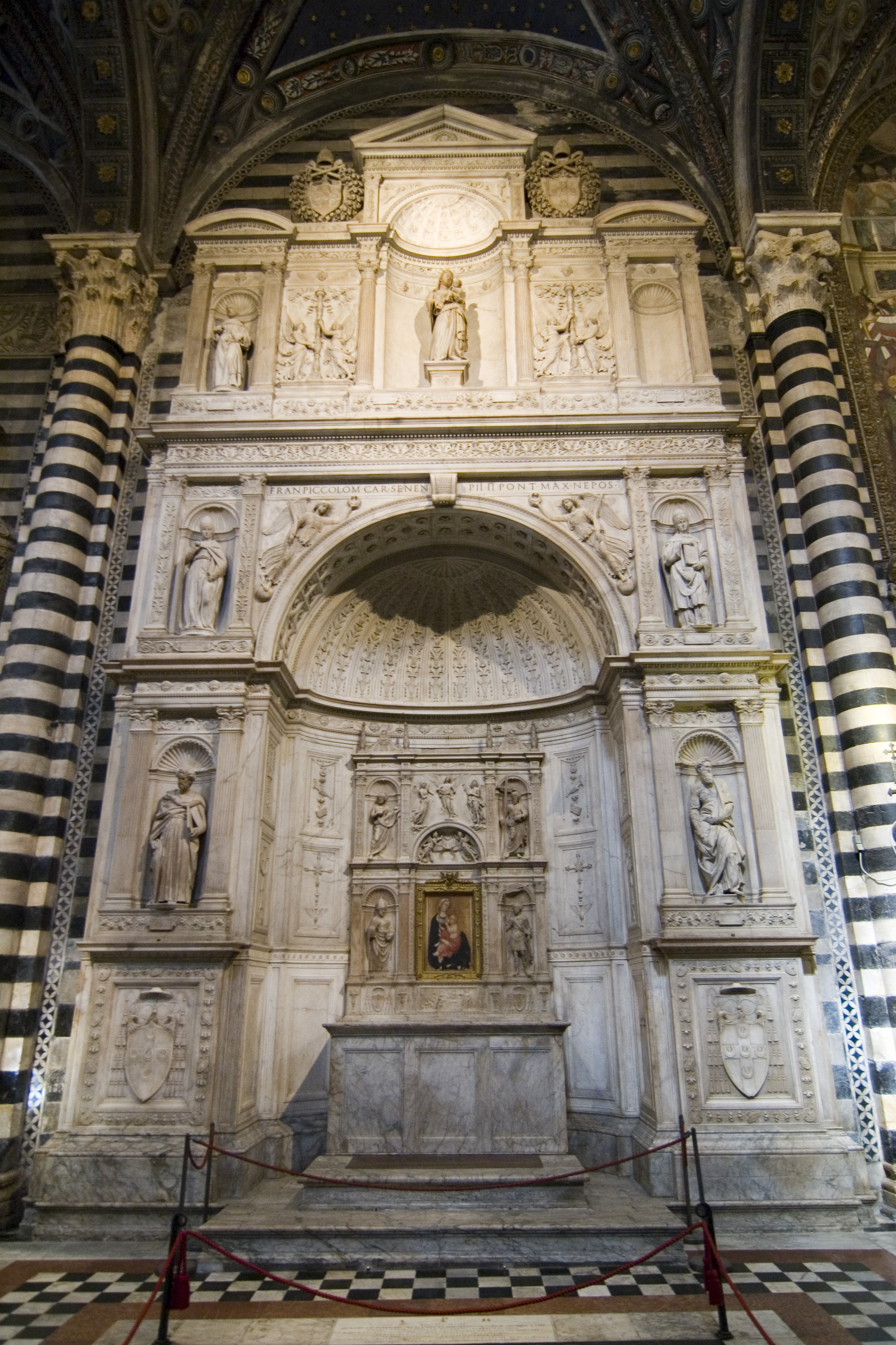 see above